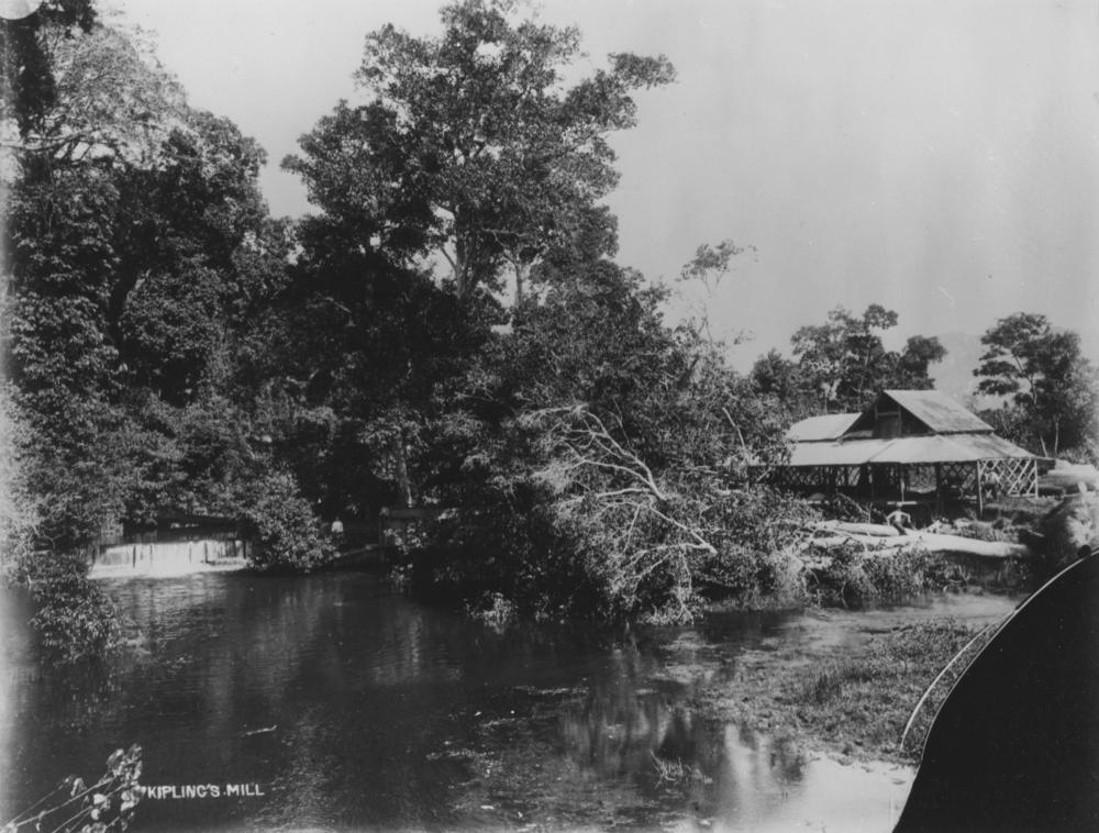 Joseph Kipling's rice mill in Freshwater, Cairns, Queensland, Australia, circa 1890